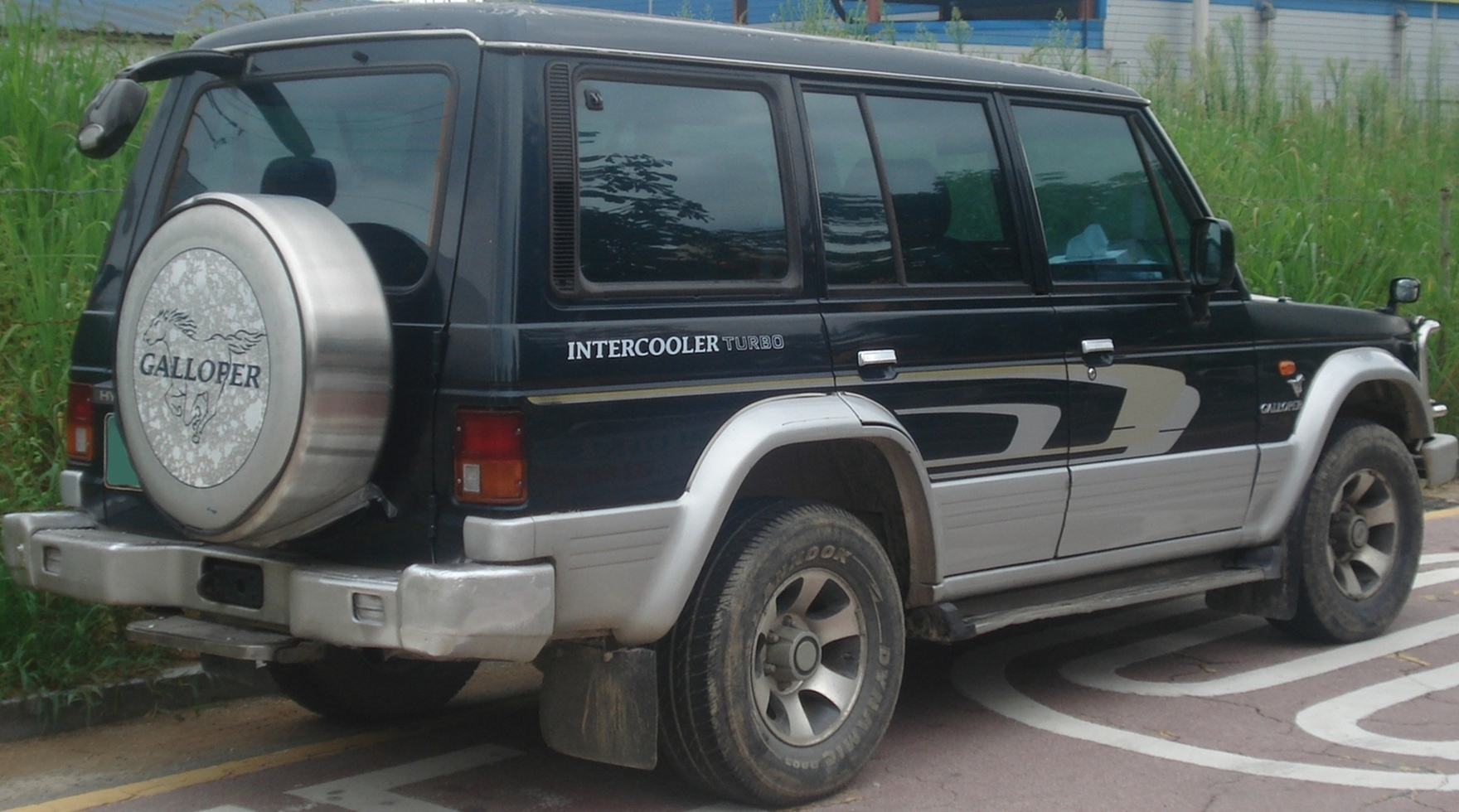 Hyundai Galloper